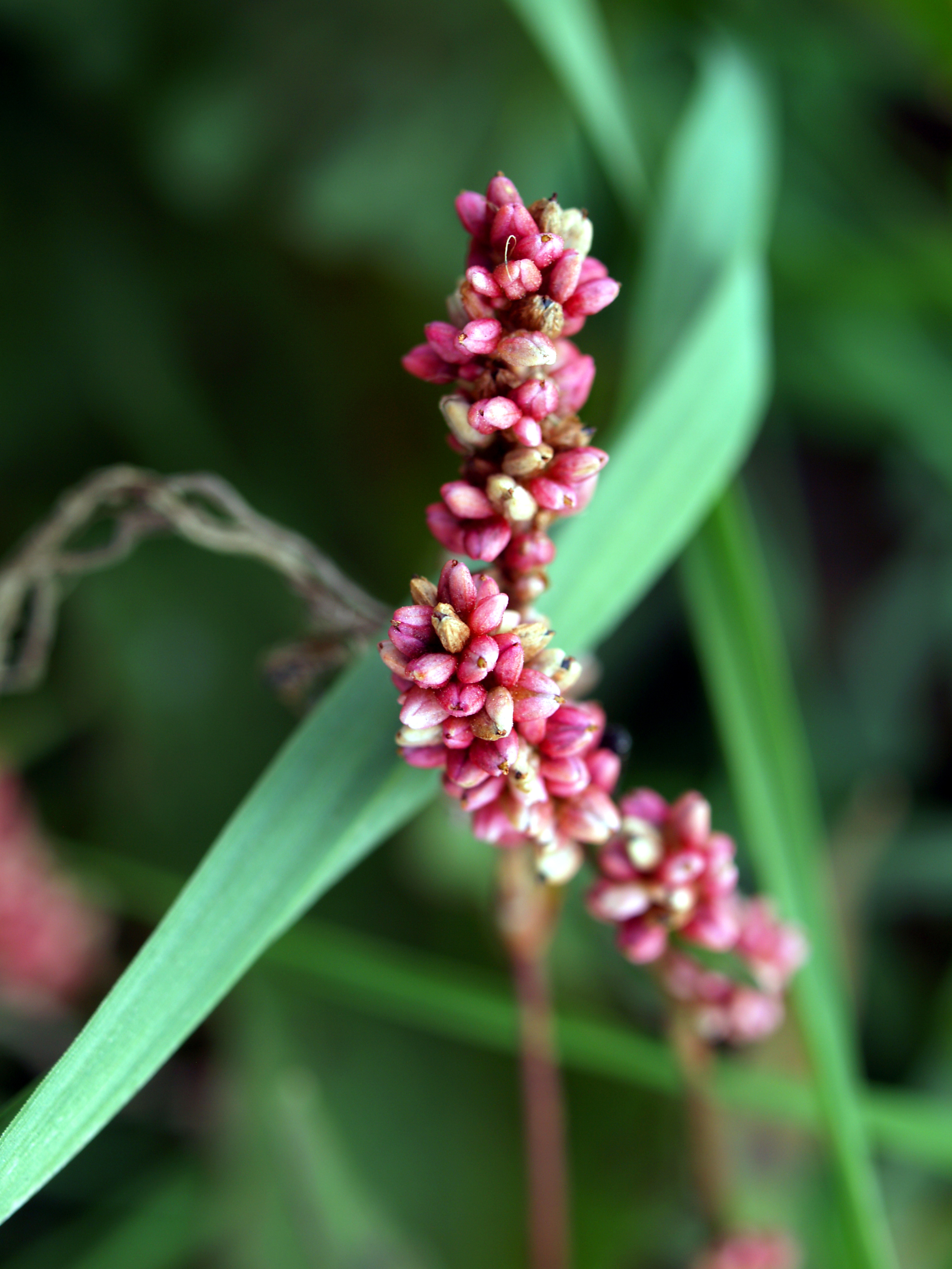 Persicaria amphibia (syn. Polygonum coccineum) at Wind Cave National Park, South Dakota, USA